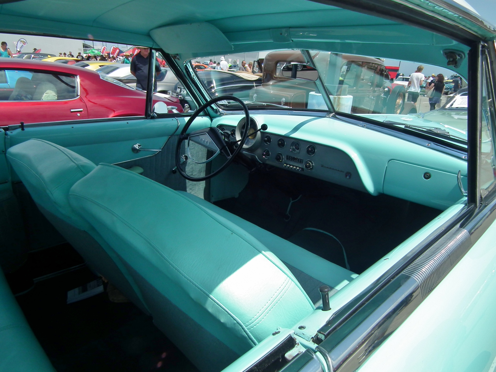 1951 Ford Victoria coupe interior. Taken at the 2014 New South Wales All American Day, held at Castle Towers Shopping Centre, Castle Hill, Sydney.